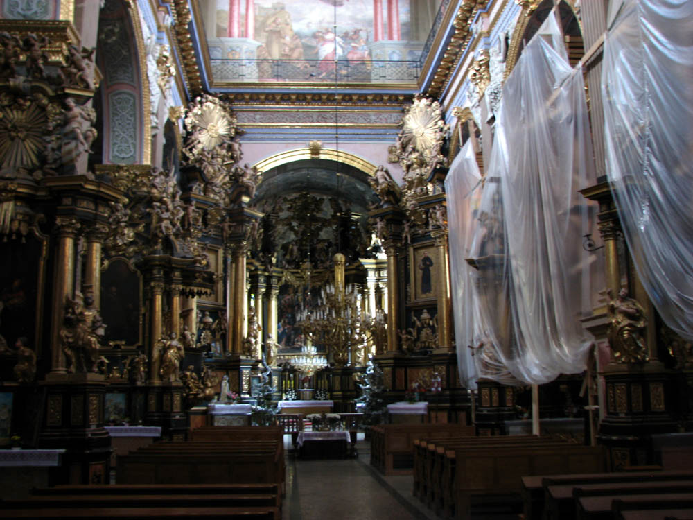 Bernardine church and monastery in Lviv